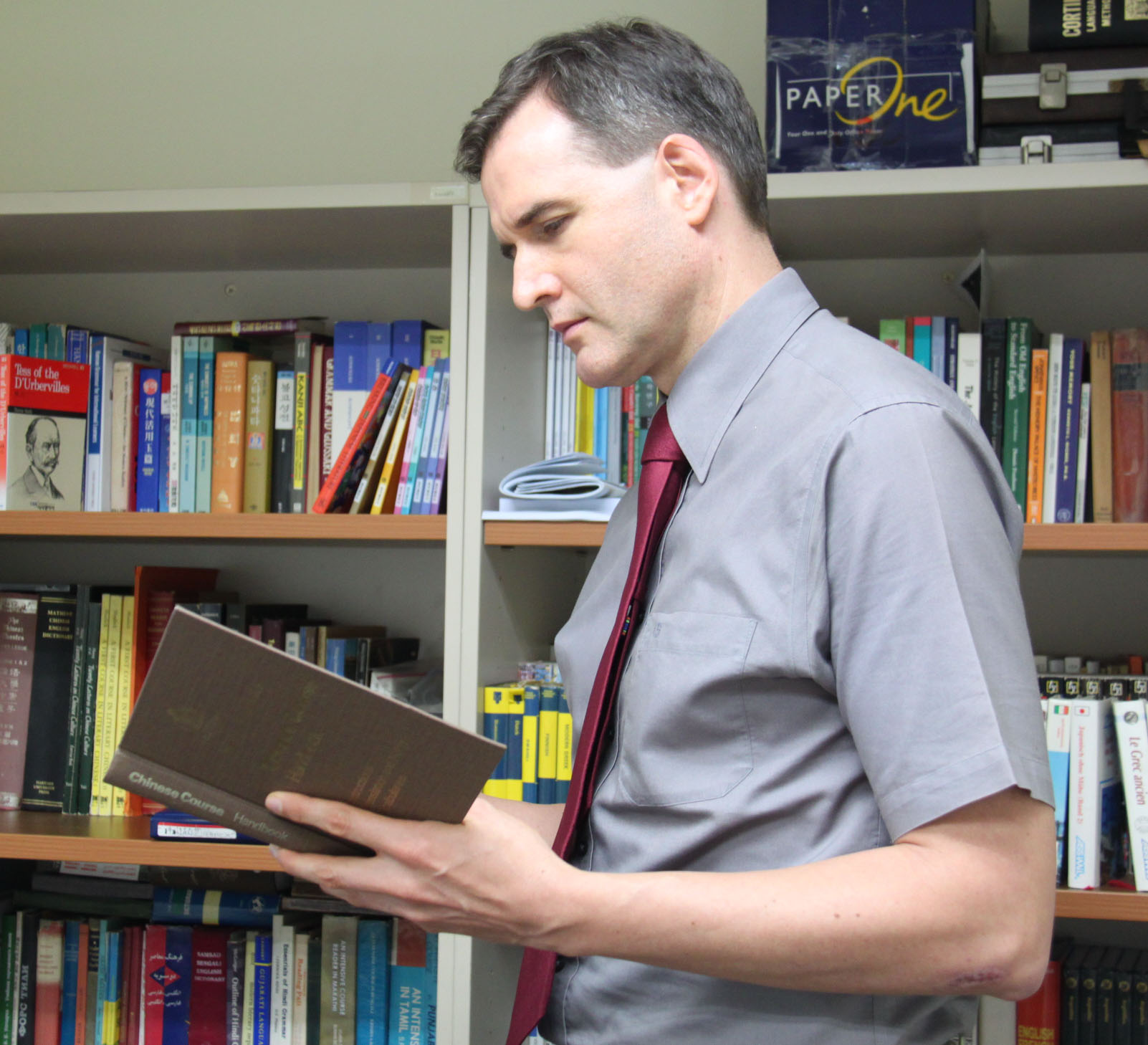 Alexander Arguelles, American linguist and polyglot.